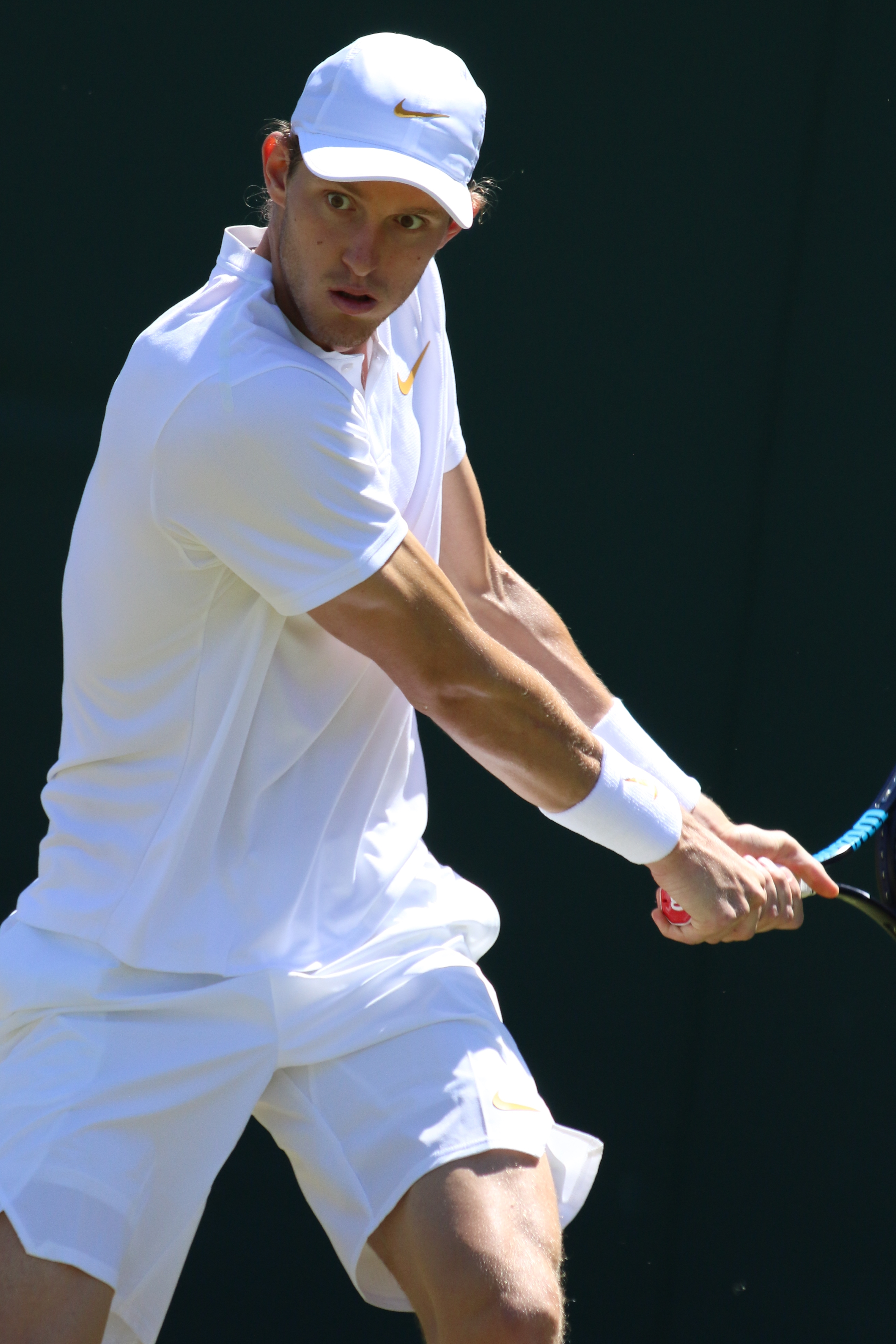 Jarry WM18 (23)